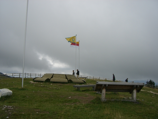 Villacher Alpenstraße: Wooden couch at the Rosstratte, the endpoint of the street